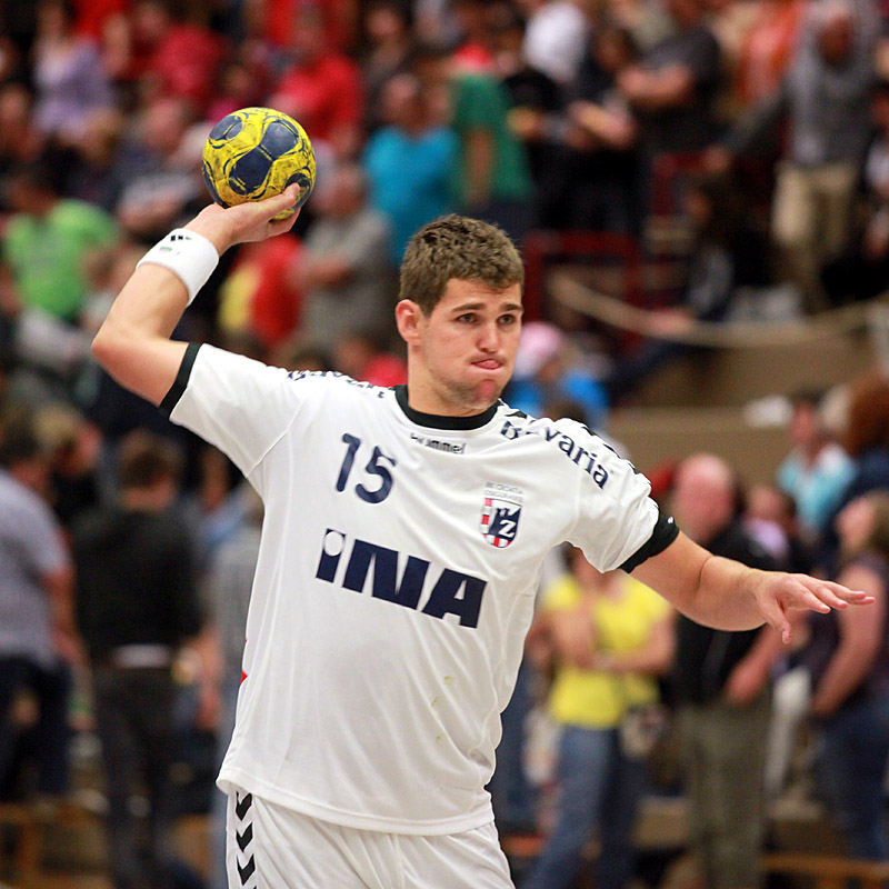 Jakov Gojun, handball player from RK Zagreb, on August 14th, 2010 in Ehingen (Germany).